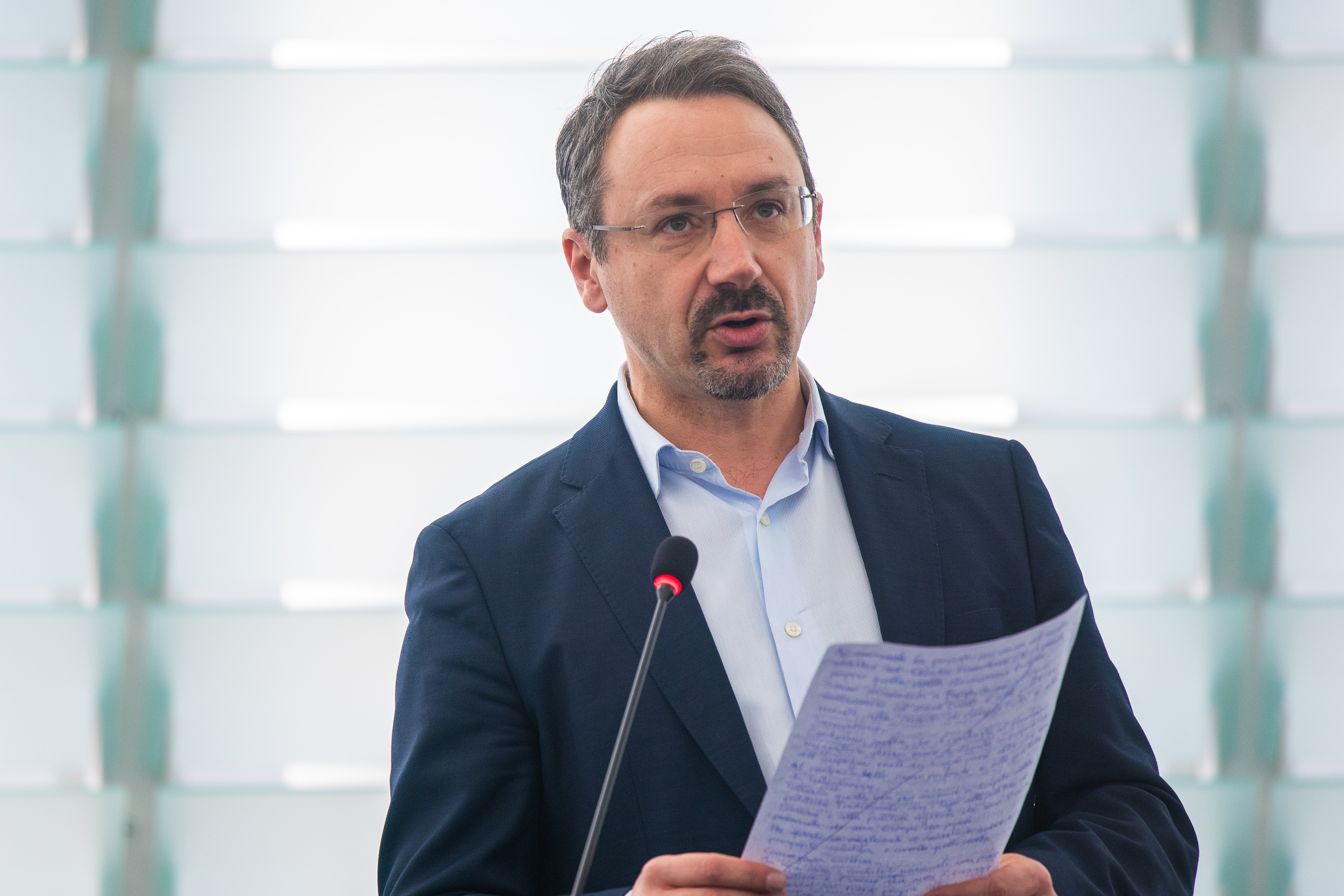 Ahead of the EU budget summit on 20 February, MEPs discuss EU priorities for the next financial framework with Council and Commission. Read our aggregation on the long term budget here: This photo is free to use under Creative Commons license CC-BY-4.0 and must be credited: "CC-BY-4.0: © European Union 2020 – Source: EP". No model release form if applicable. For bigger HR files please contact: webcom-flickr(AT)